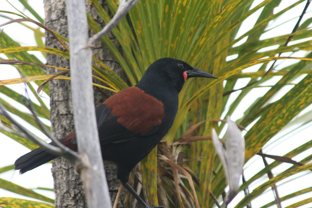 North Island Saddleback Philesturnus rufusater. Tiritiri Matangi Island, New Zealand. Almost looks icterid-like in this photo.